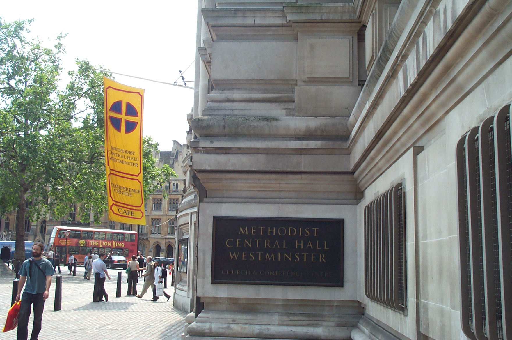 Entrance to the Methodist Central Hall, Westminster